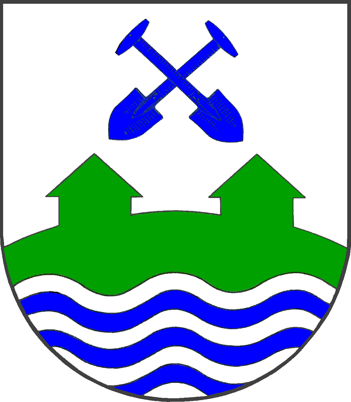 Coat of arms of the municipality Averlak in Schleswig-Holstein, Germany.